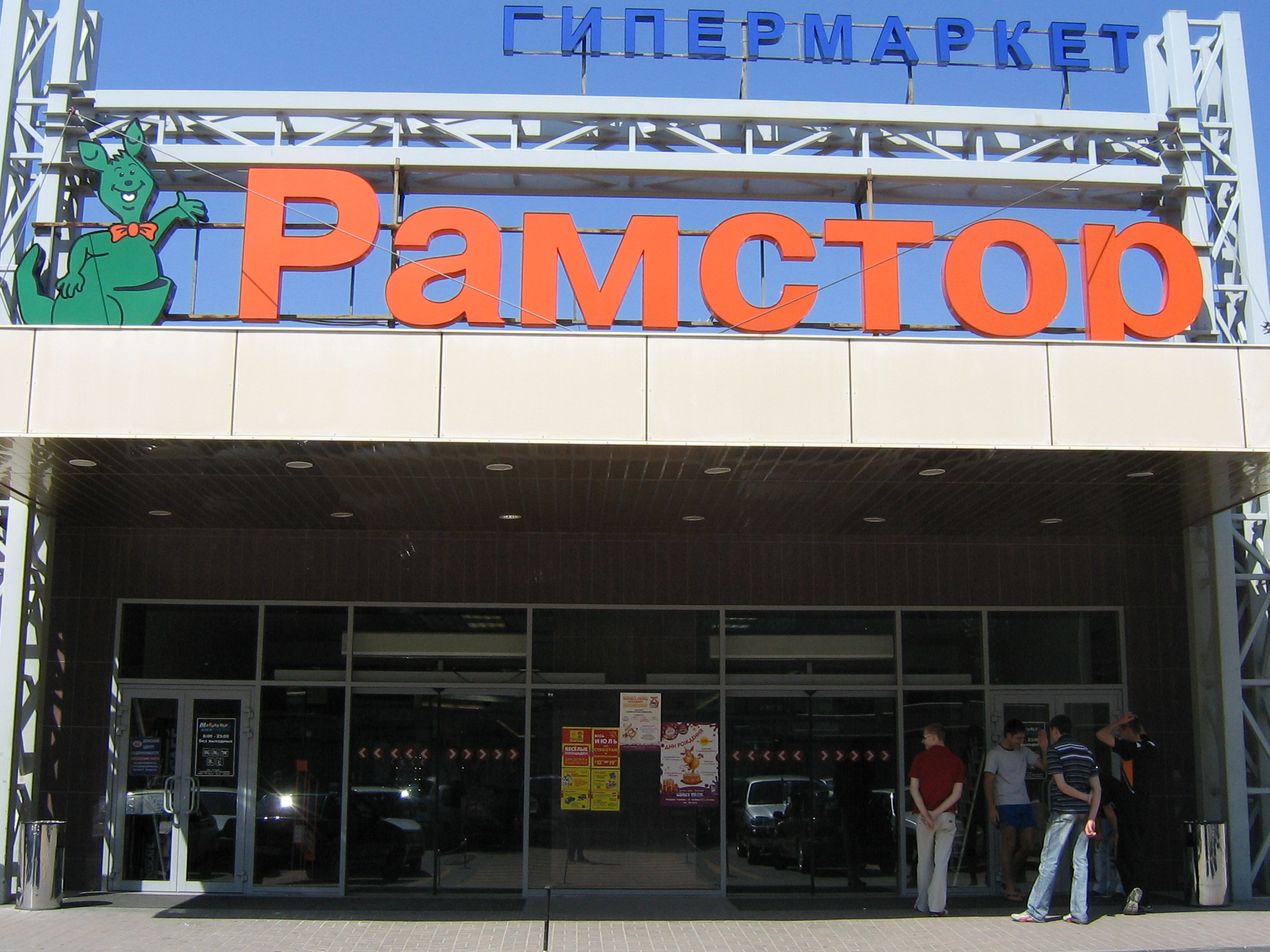 Ramstor (Rostov-on-Don)